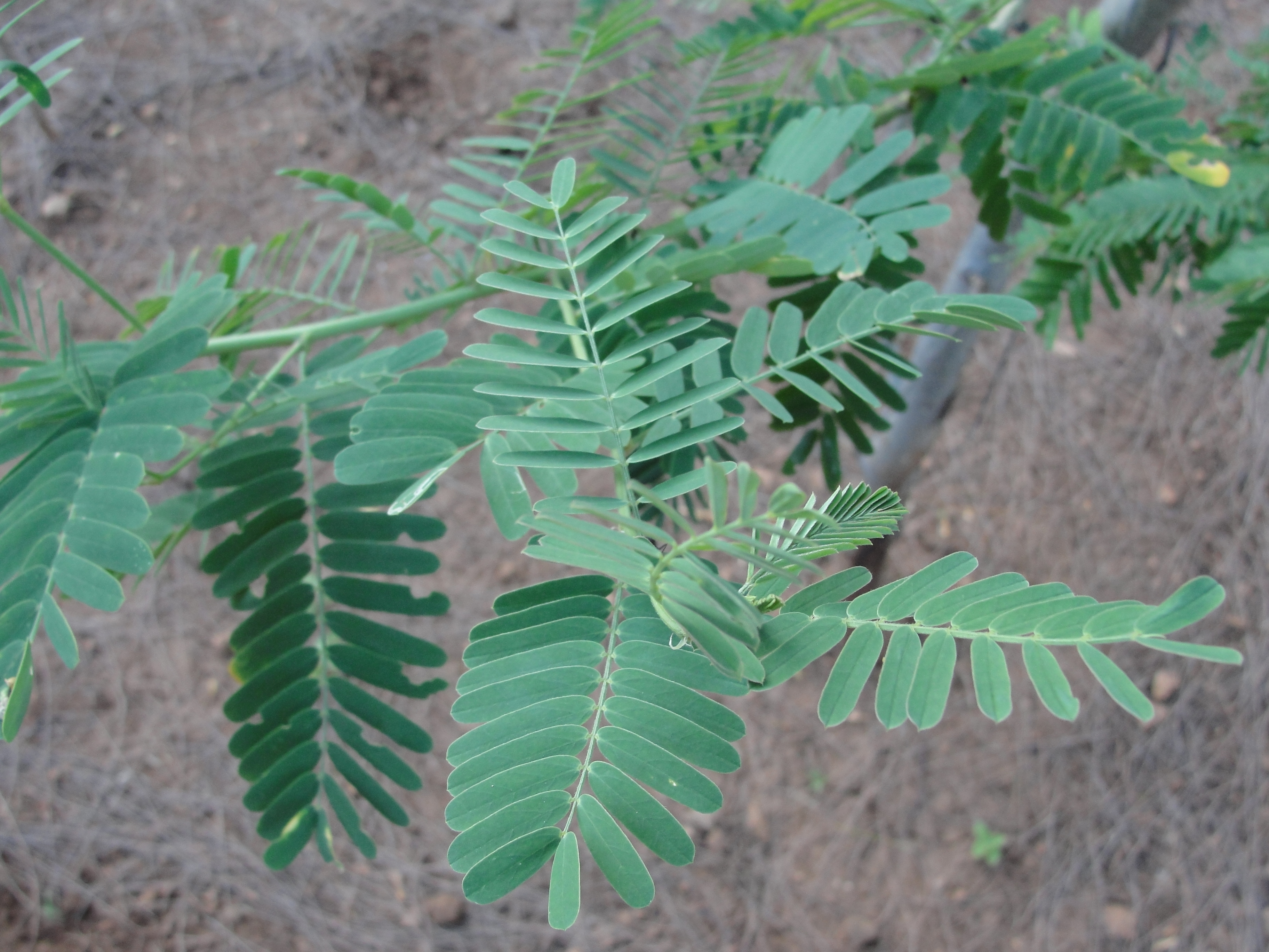 Sesbania aegyptiaca. Location: A herbal Garden in Forest Extension Center, Sithar Koyil, Salem, Tamil Nadu, India.